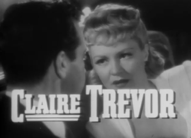 Screenshot of Claire Trevor from the film Murder, My Sweet.